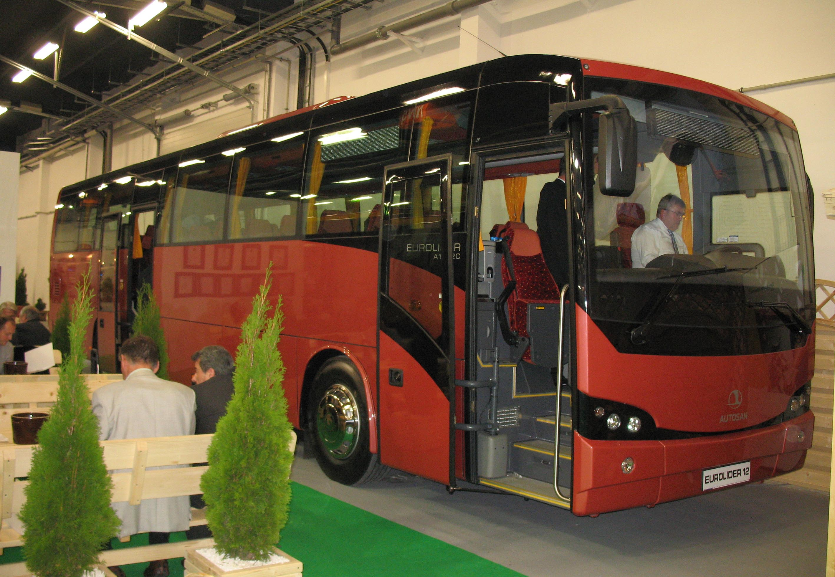 Autosan A1212C Eurolider intercity bus in Kielce, Poland. Built 2009. Transexpo 2009. From 2010 - Veolia Transport Podkarpacie in Sędziszów Małopolski operator.